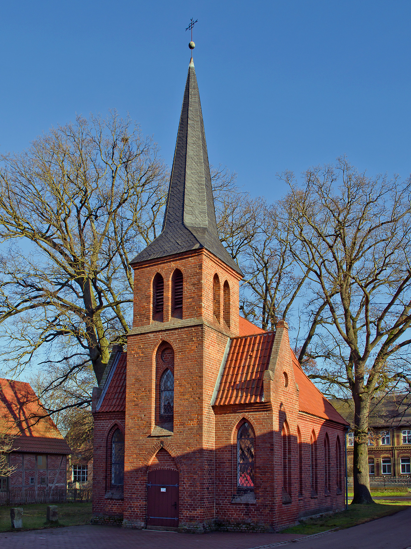 Chapel of the village Simander (district Lüchow-Dannenberg, northern Germany).